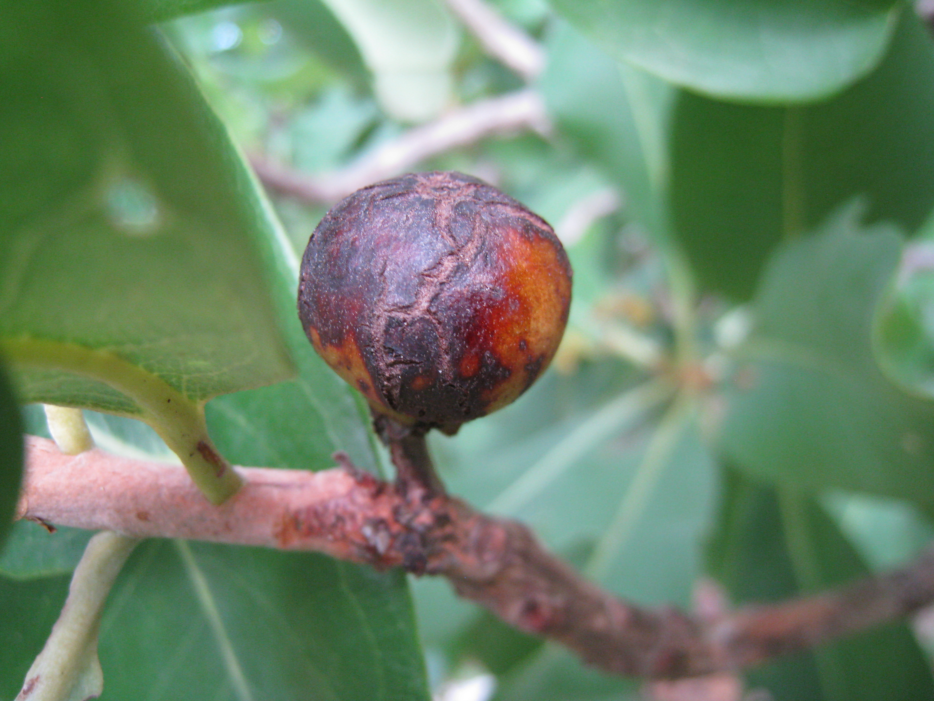 Very ripe fruit of Xanthostemon paradoxus. Charles Darwin National Park, Darwin NT Australia, November 2010.